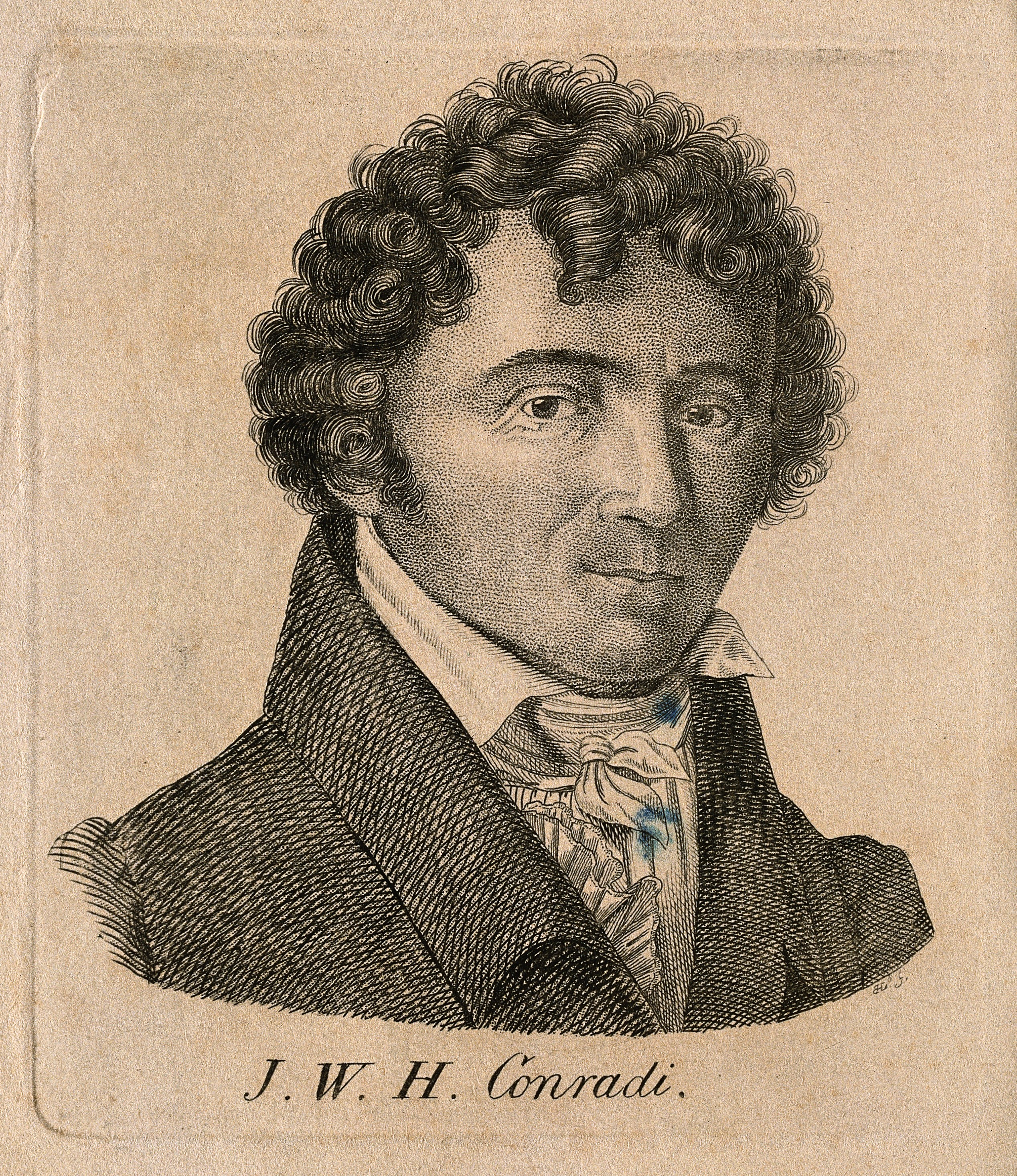 Johann Wilhelm Heinrich Conradi. Engraving by [F. G.] after L. E. Grimm, 1826. Iconographic Collections Keywords: intaglio prints; portrait prints; Ludwig Emil Grimm; conradi, johann wilhelm heinri; Johann Wilhelm Heinrich Conradi